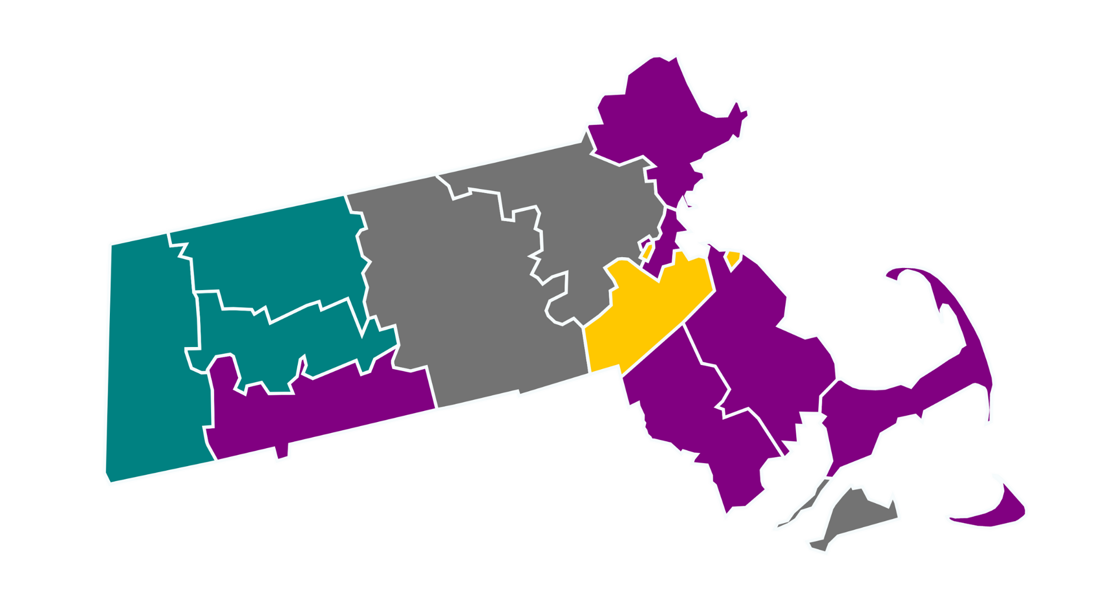 Teal counties represent Hawkins plurality. Purple counties represent Hunter plurality. Yellow counties represent Curry plurality. Grey counties represent tie.